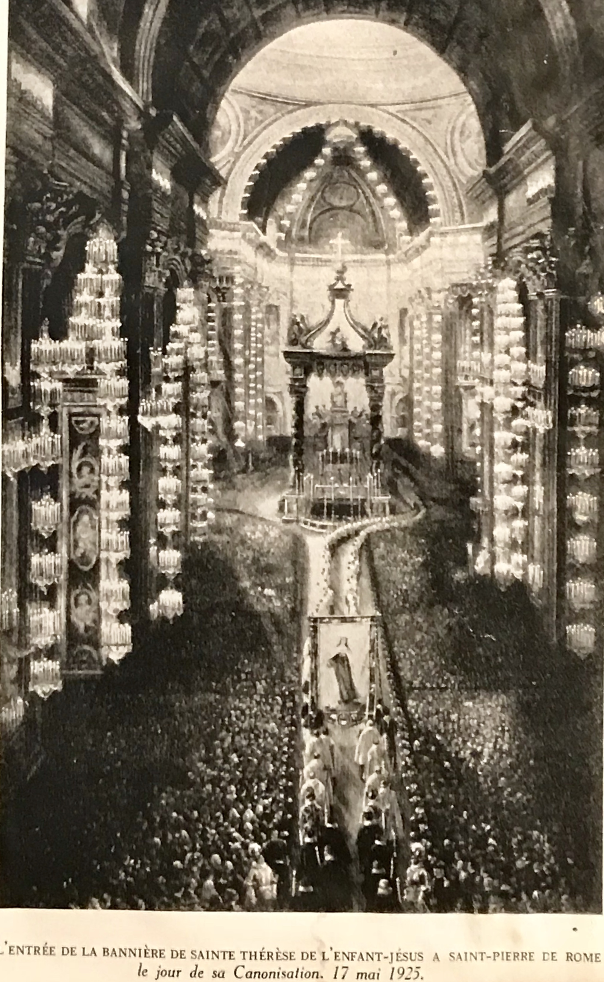 iPhone photo of an 11x17inch Xerox copy of a public domain French book about Saint Therese on her day she was sainted on May 25, 1925.